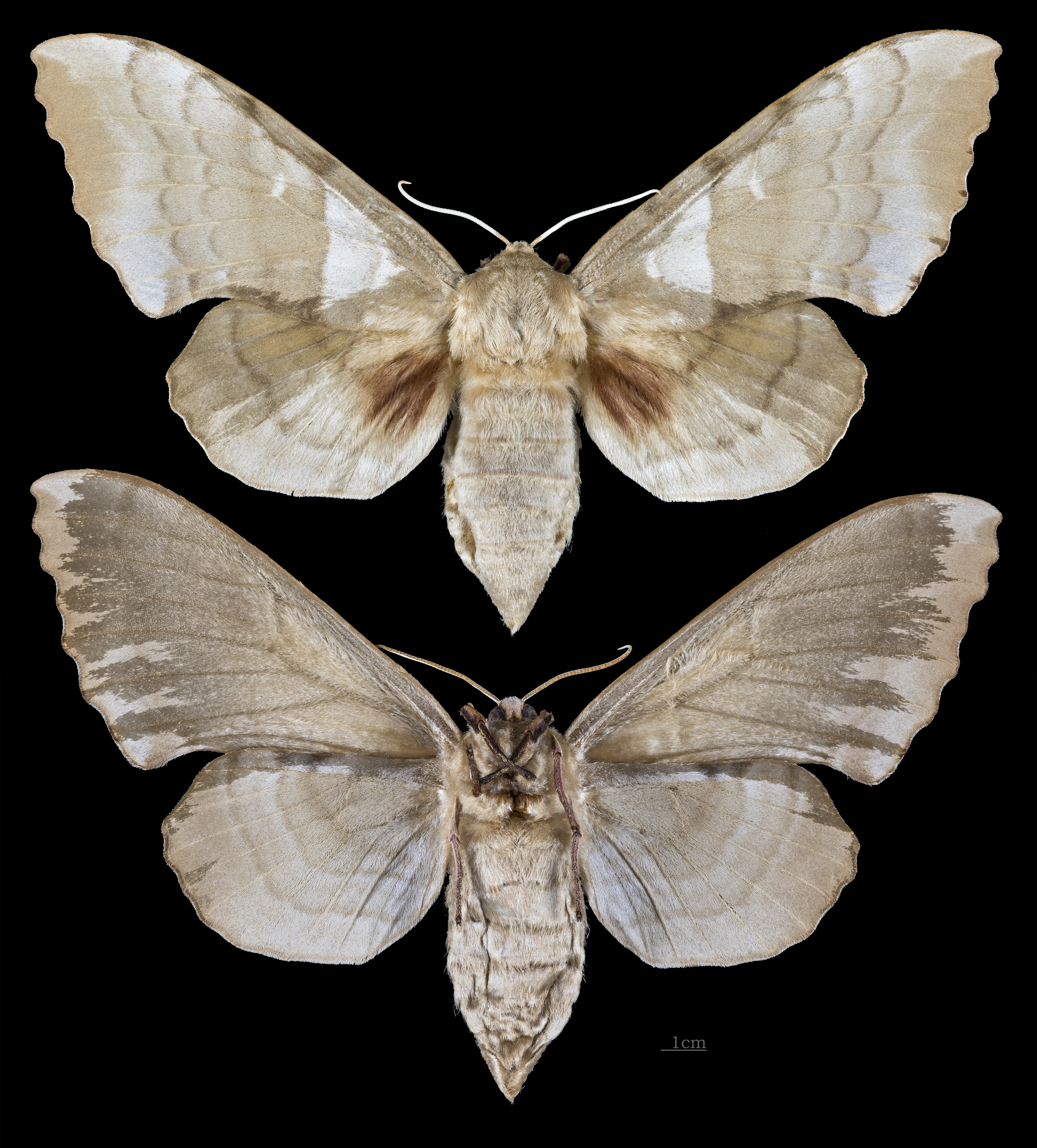 Laothoe austauti - Two views of same specimen Collection of the Mathematician Laurent Schwartz